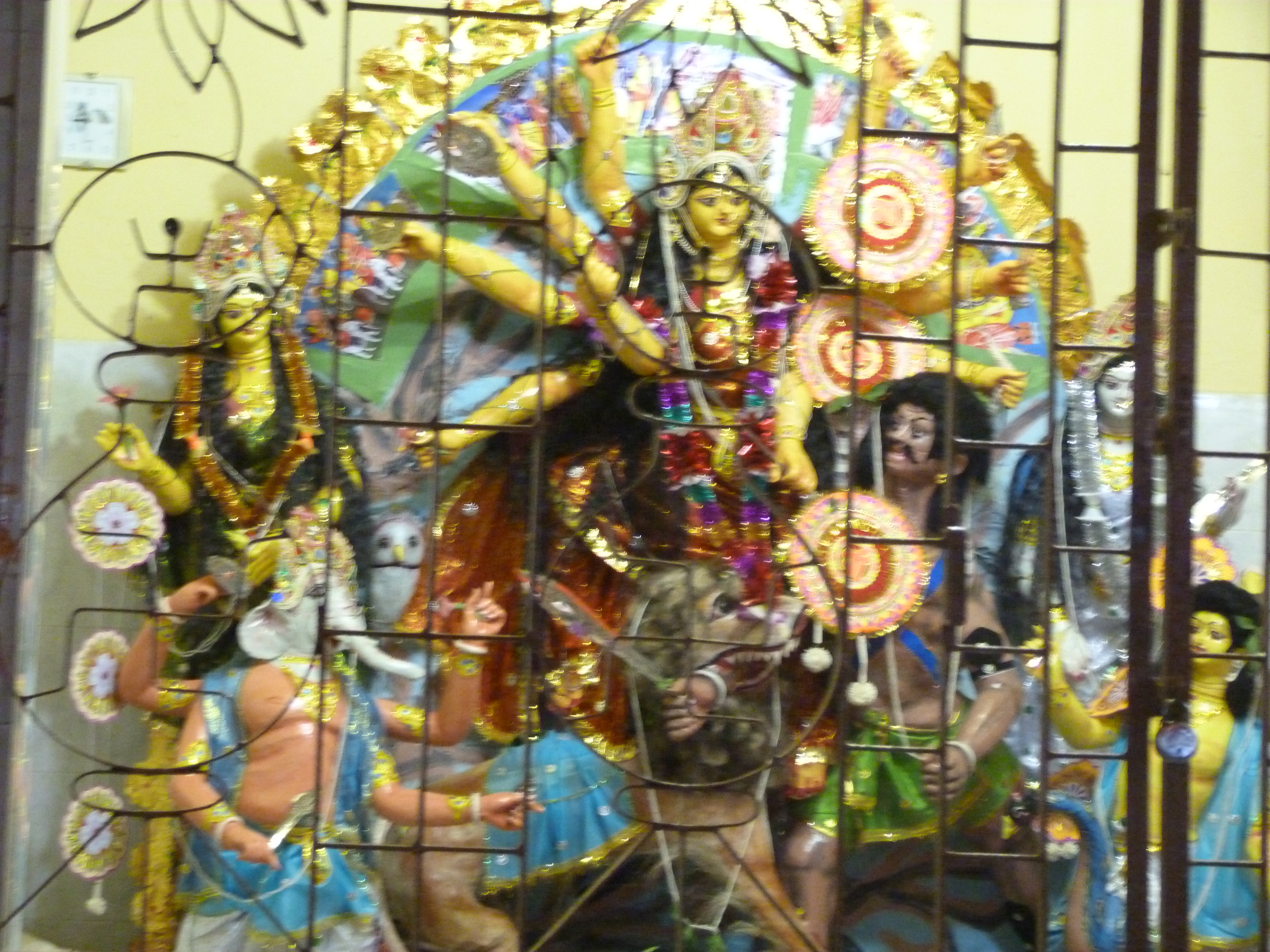 Kondaipur Kali Puja....arunava sanyal....arunava sanyal